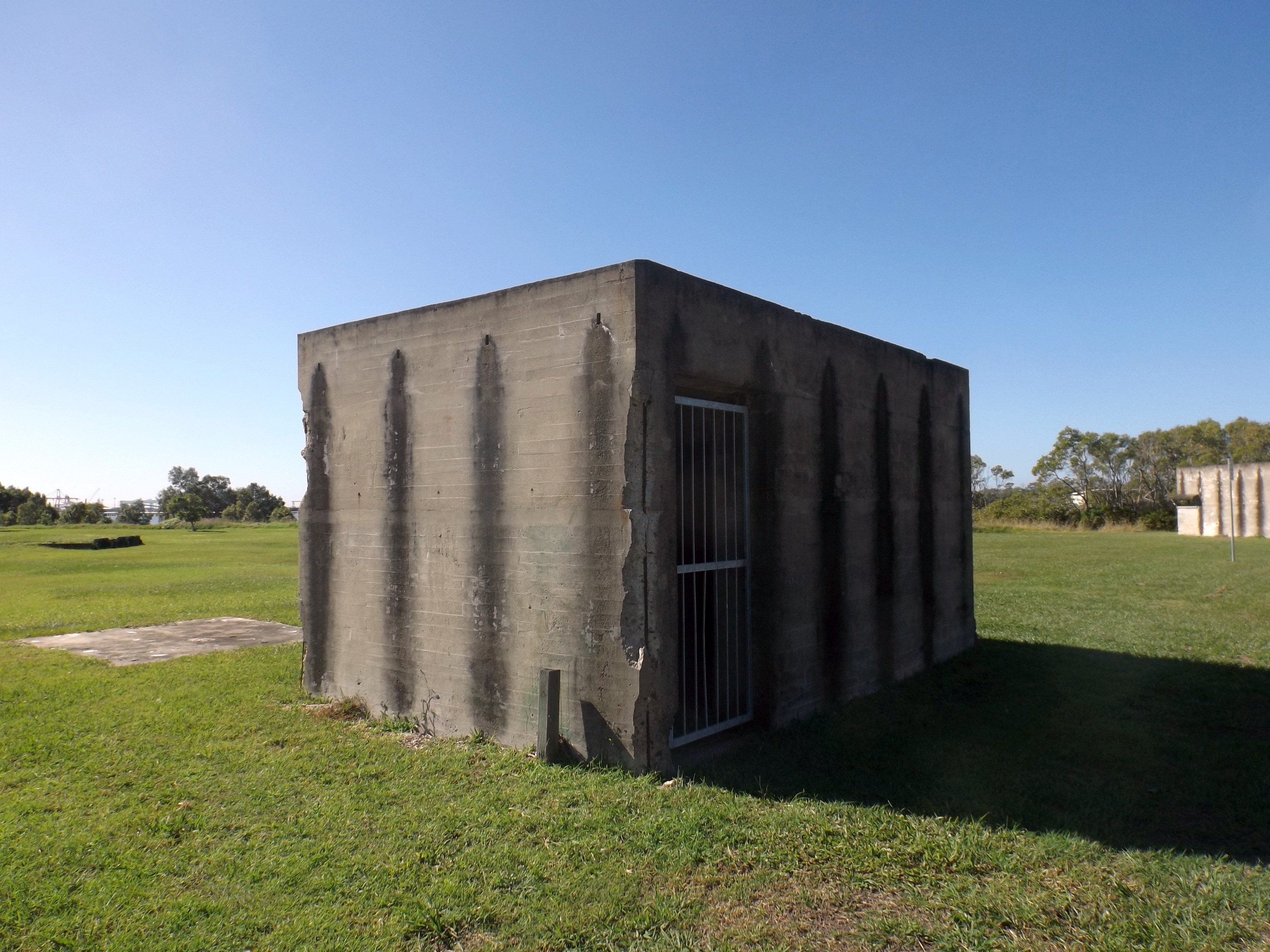 Photo of RAN Station 9 control hut at Pinkenba, Brisbane, Queensland, Australia.